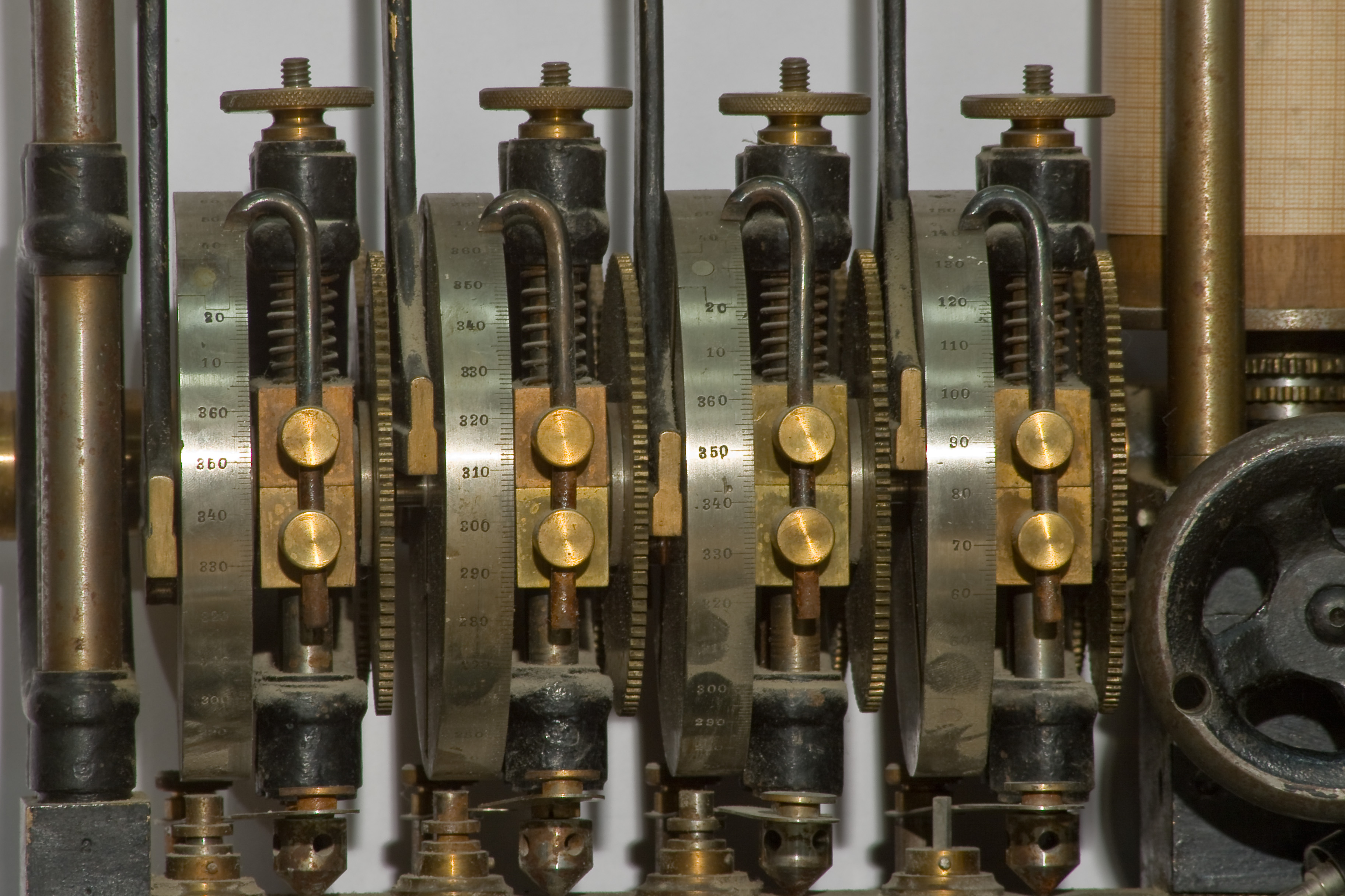 Parts and indication devices of cam-based analog computer